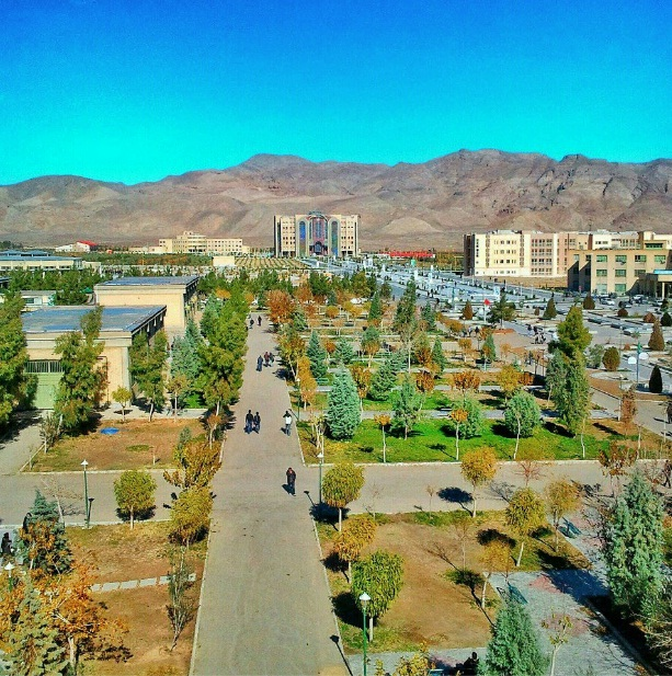 Islamic Azad University of Najafabad's campus. From left: Laboratories(front), Architectural Engineering faculty, Administration and Library building, Electrical Engineering faculty and Materials Engineering faculty.